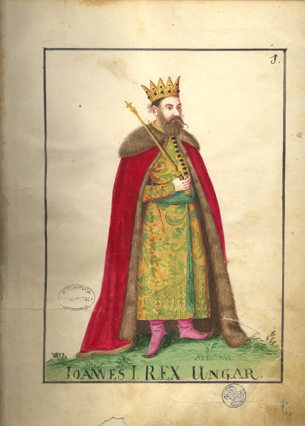 From Trachten-Kabinett von Siebenbürgen album. Drawn in 1729, based on the 1692 watercolours of an artist from Graz Given to the Romanian Academy by Baron Ludovic Czekelius of Rosenfeld. Ioannes I Rex Ungarn